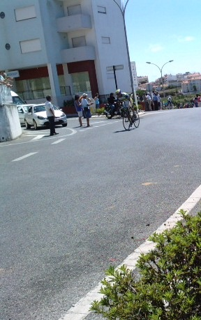 Volta a Portugal 2011, 15-08-2011 (last stage). Paz, Mafra